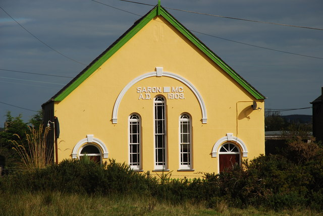 Capel Saron Rhoshirwaun An apparently bright colour scheme for a small Calvinistic Methodist chapel. It was sold in 2000 and converted to a house.